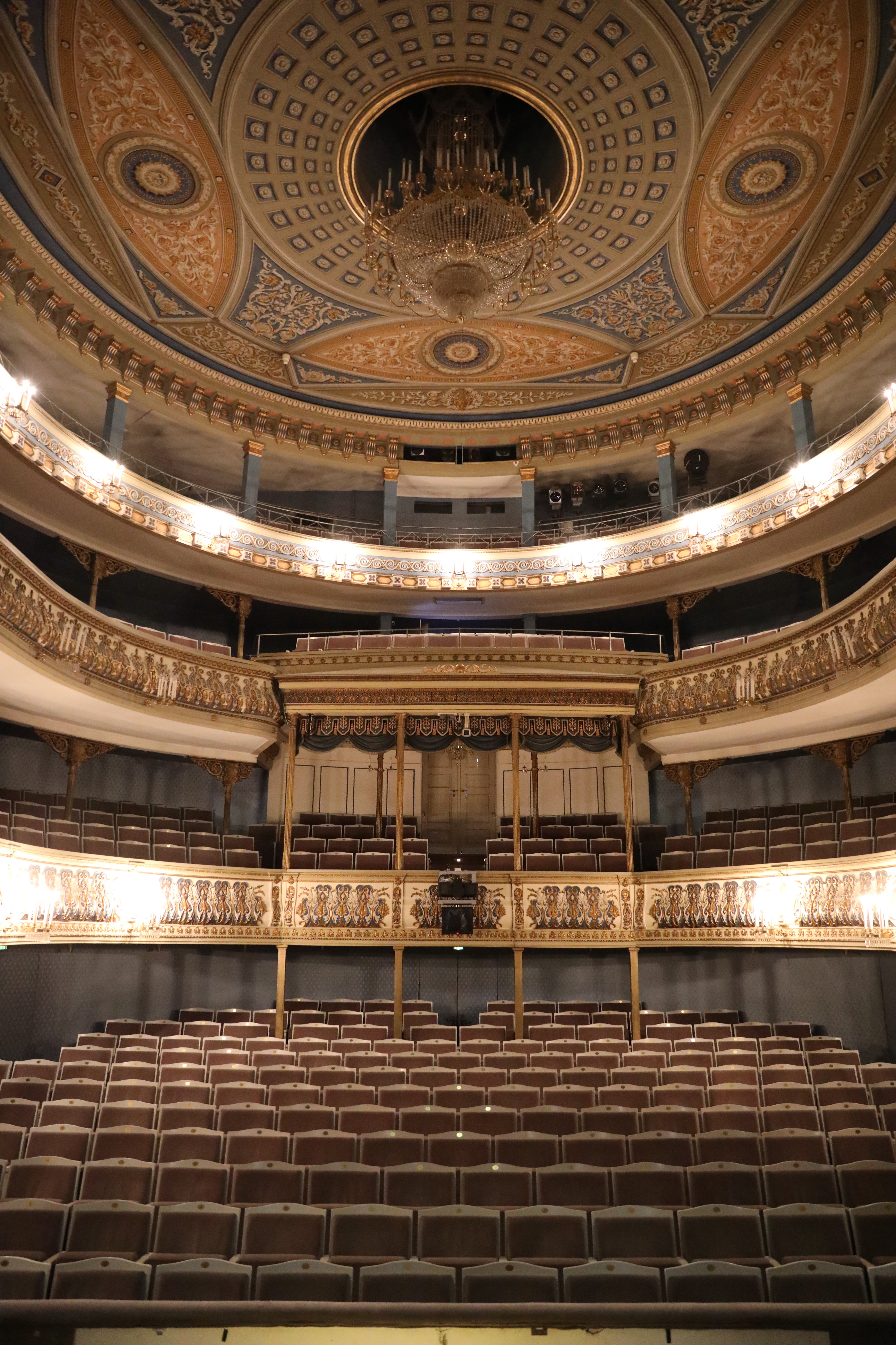 Landestheater Coburg